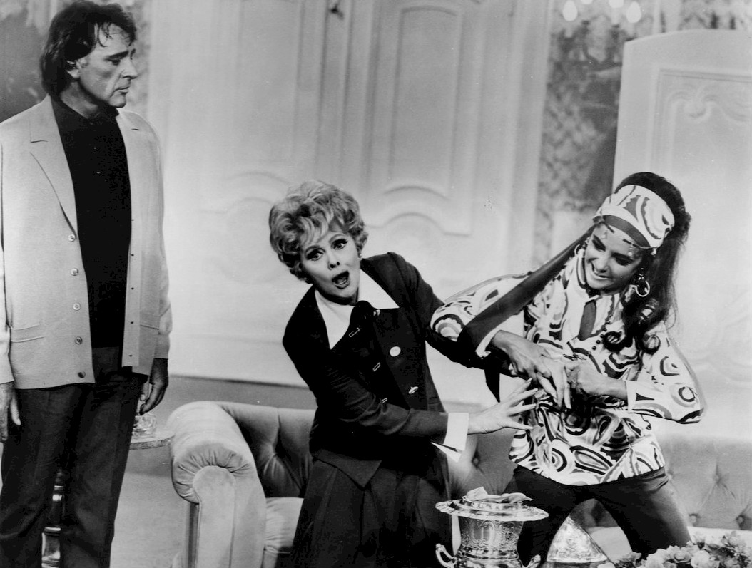 Publicity photo of Lucille Ball, Richard Burton and Elizabeth Taylor from the television show Here's Lucy. In this episode, Lucy tries on Elizabeth Taylor's famous large diamond ring, which gets stuck on her finger.